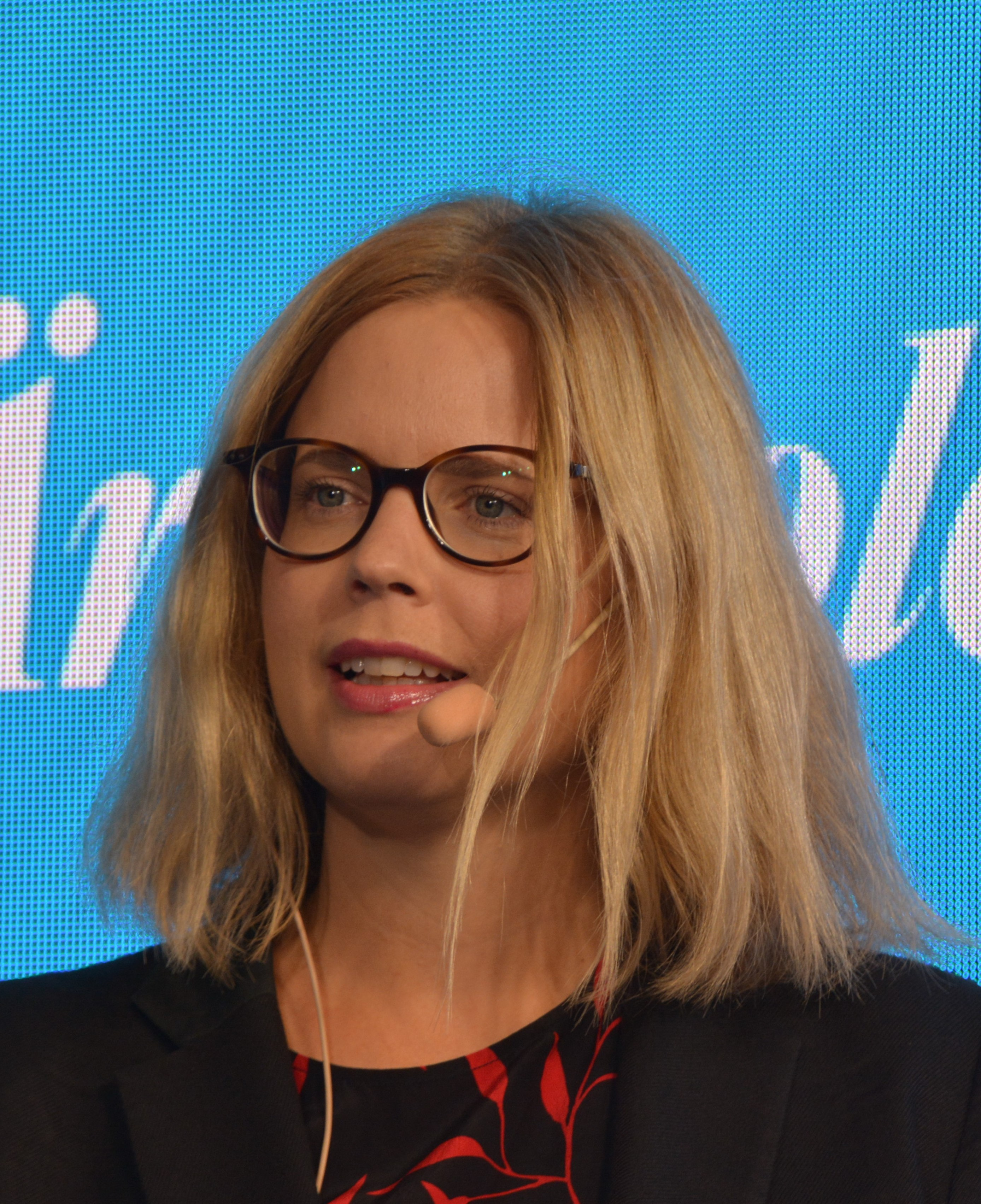 Jonna Sima